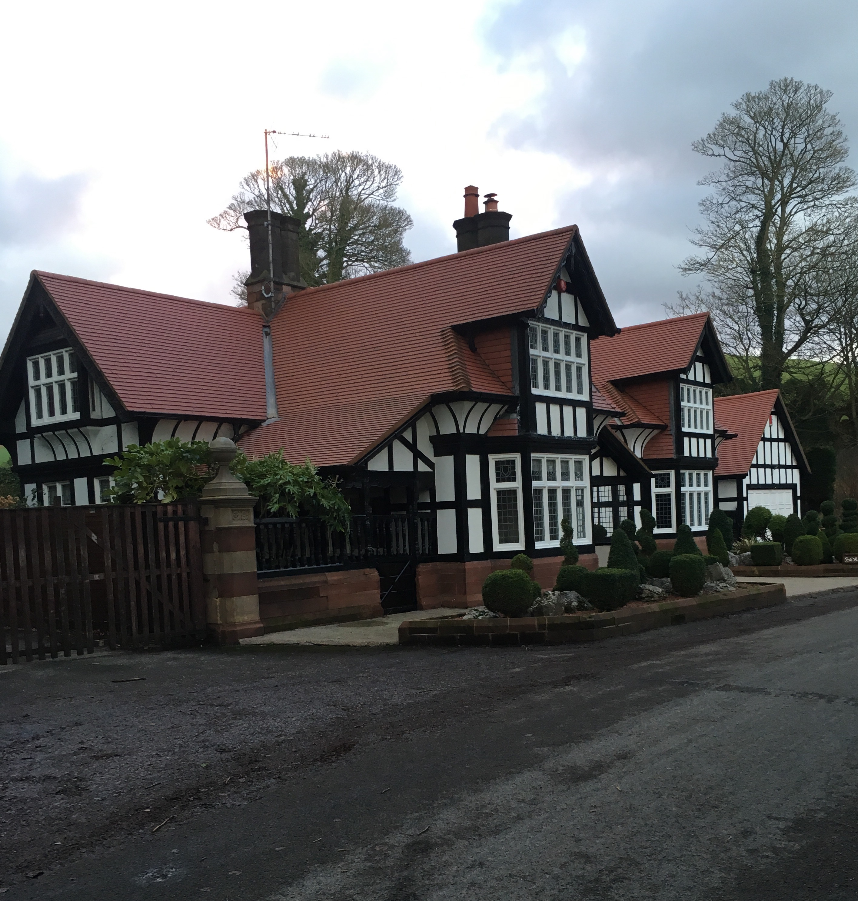 Grade II Listed South Lodge to the former Abbot' Wood estate in Barrow-in-Furness, England